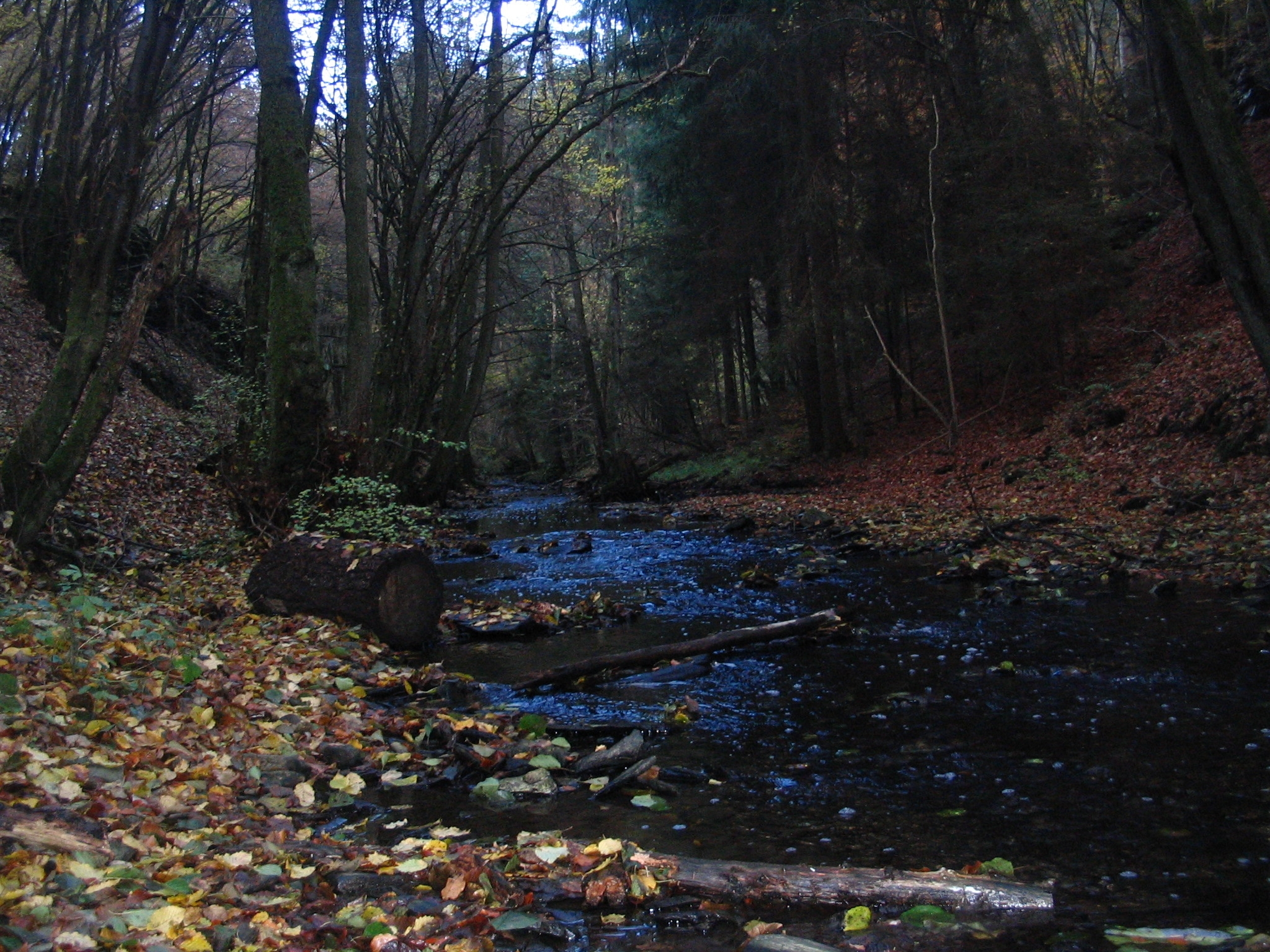 Baybach in the Hunsrück; Germany